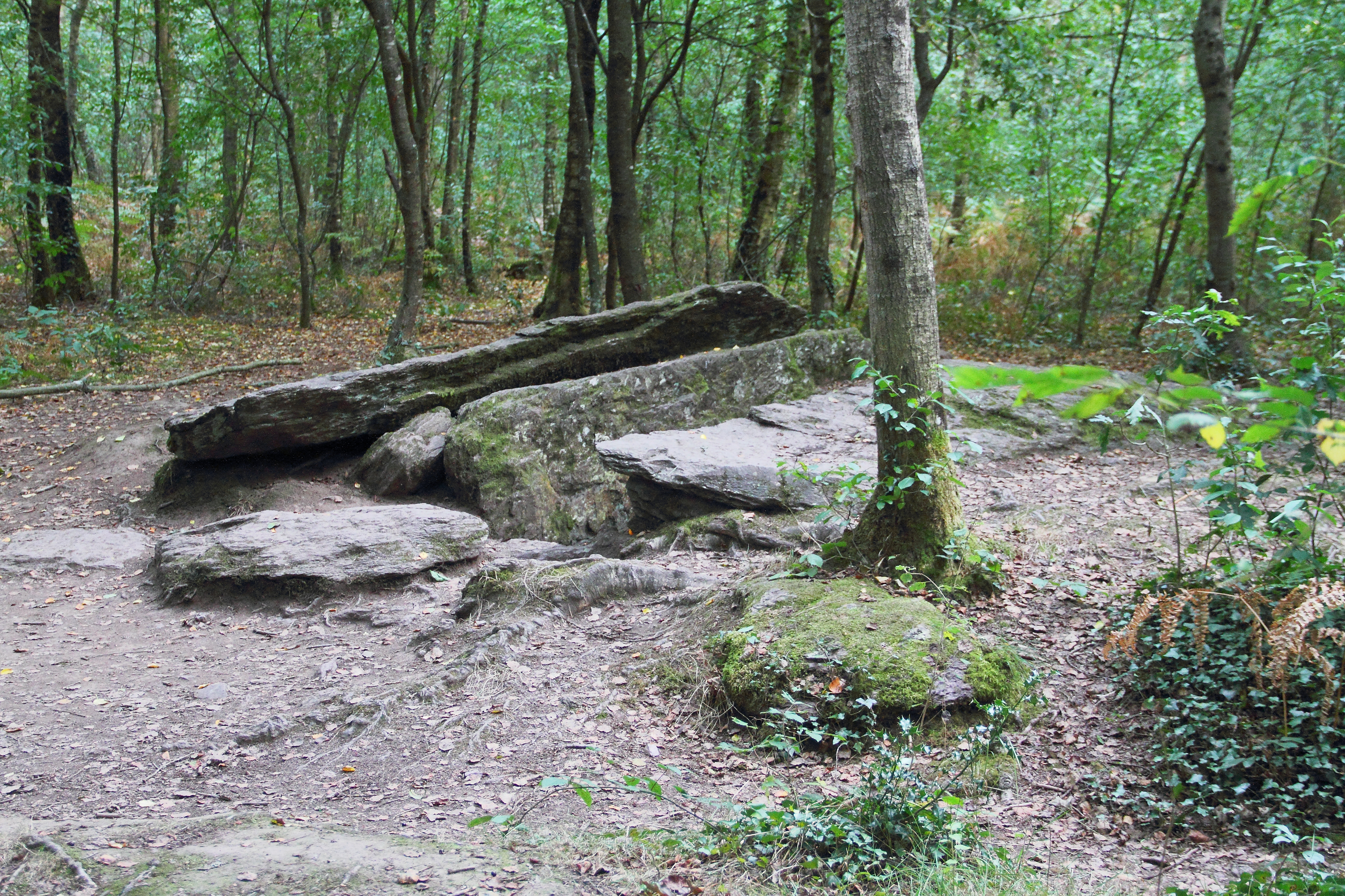 "The Grave of the Giants" is a semimegalithic site near Paimpont, Brittany.